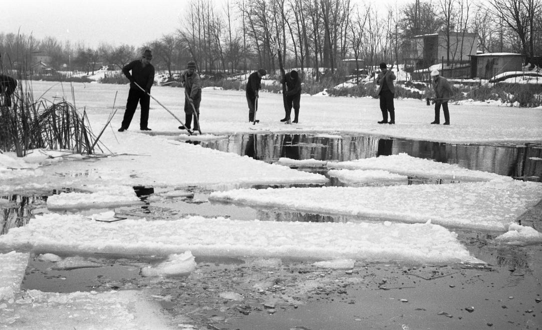 Guys standing on a frozen pond pushing ice sheets